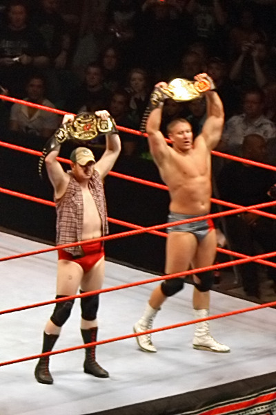 Lance Cade and Trevor Murdoch (Trevor Rhodes) as WWE World Tag Team Champions posing for the crowd following their ring entrance. Taken during the WWE Raw - Survivor Series Tour, at Rod Laver Arena, Melbourne Park, Melbourne, Australia. Cade and Murdoch wrestled in a triple threat match for the tag titles on the night, against The Highlanders and The World's Greatest Tag Team (Shelton Benjamin and Charlie Haas). Cade and Murdoch won the match when Cade pinned Robbie from the Highlanders following a Benjamin superplex on Robbie.